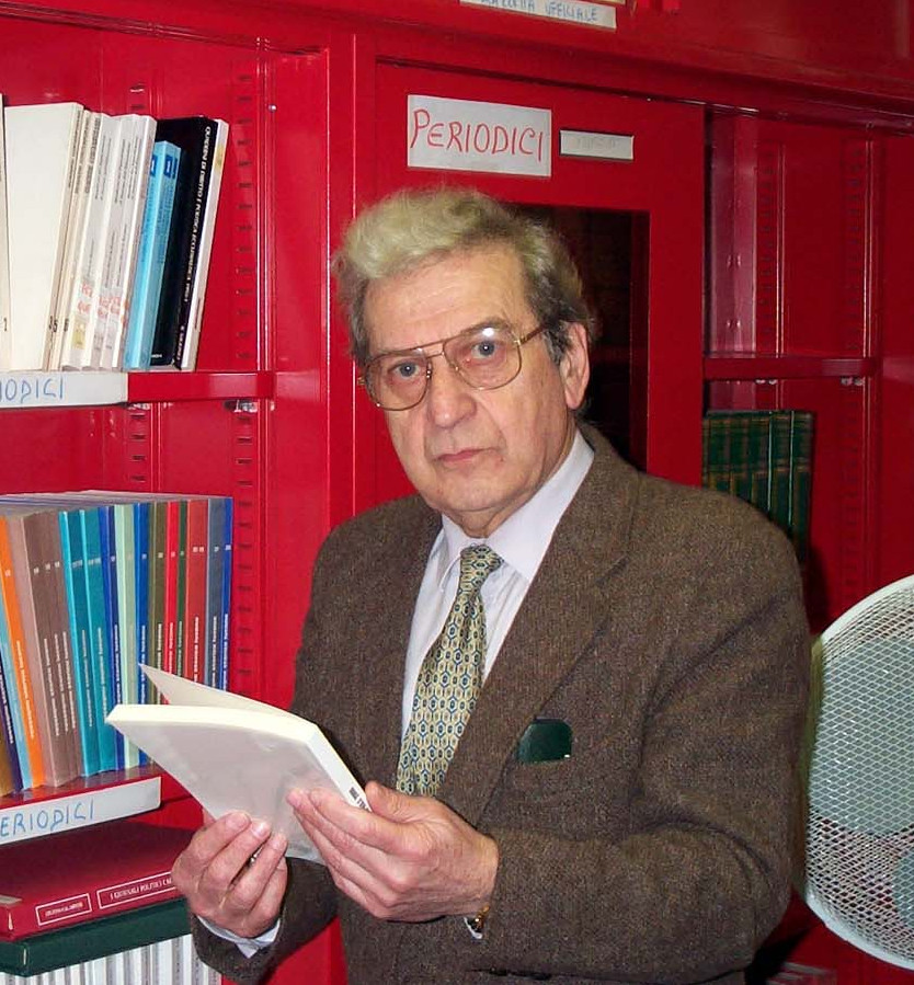 Luigi Cortesi nel 2003 (circa) a Napoli. Foto del suo collega e amico Geppino Imbucci